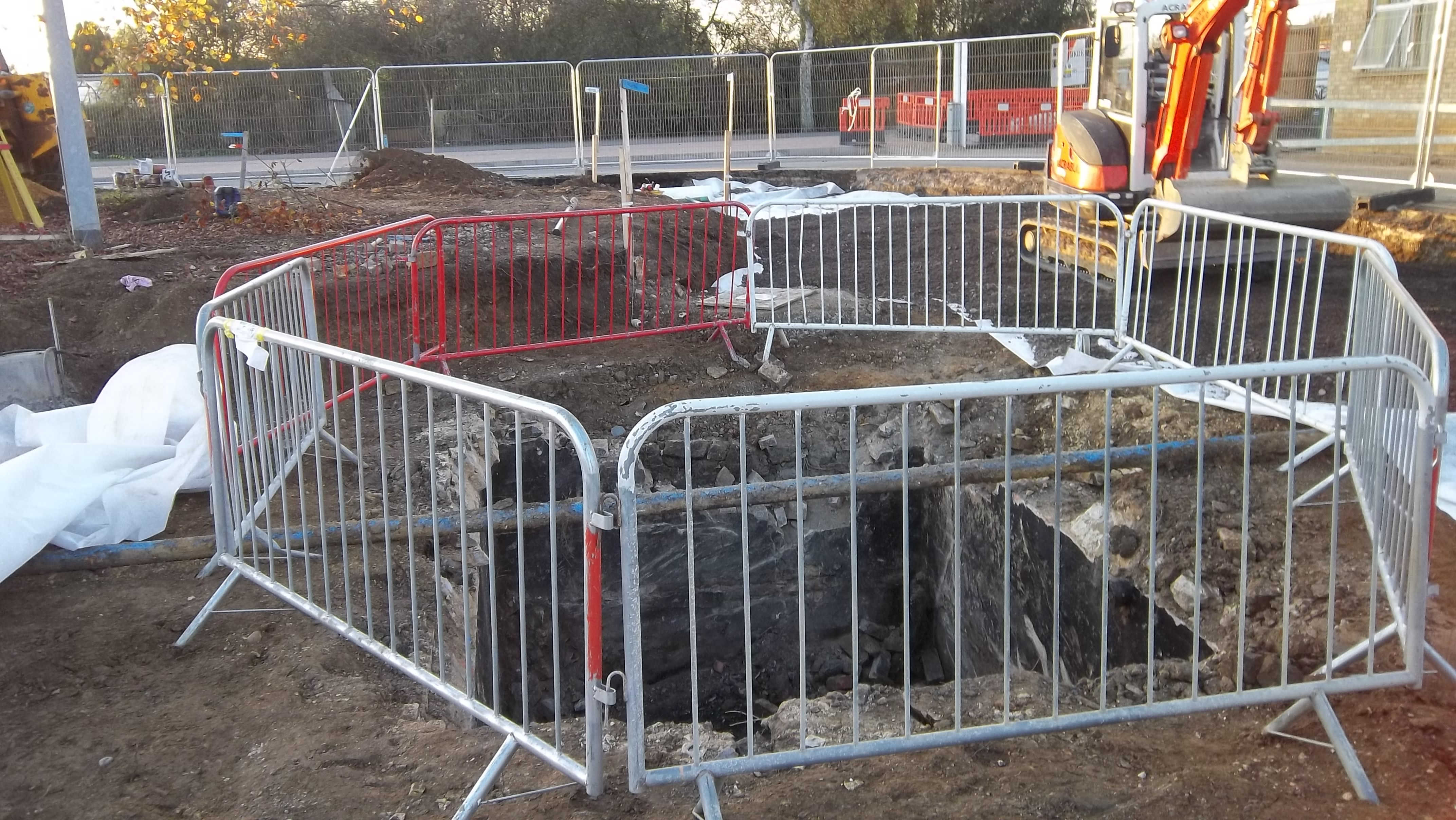 The cellar of the old Whittlesey Workhouse, unearthed beneath Sir Harry Smith Community College car park during renovation works in 2011.